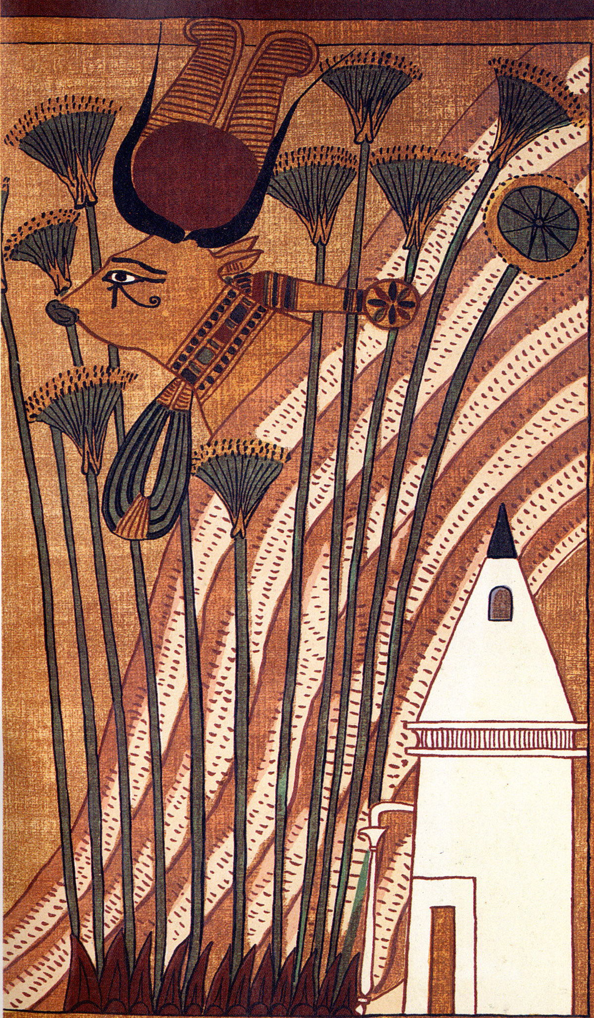 Facsimile of a vignette from the Book of the Dead of Ani. Hathor, as the Mistress of the West (a goddess of the afterlife) emerges from a hill representing the Theban necropolis. She is depicted as a cow, wearing her typical the horns and sun-disk, along with a menat-necklace. Her eye is shaped like the sacred Eye of Horus. At bottom right is a stylized tomb.